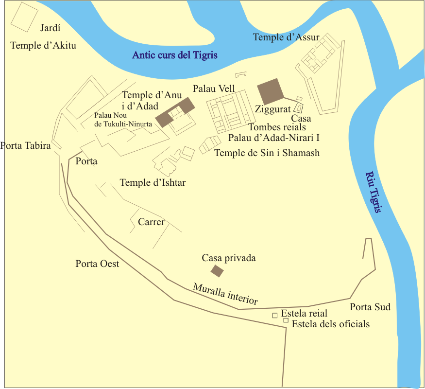 Assur archeological city